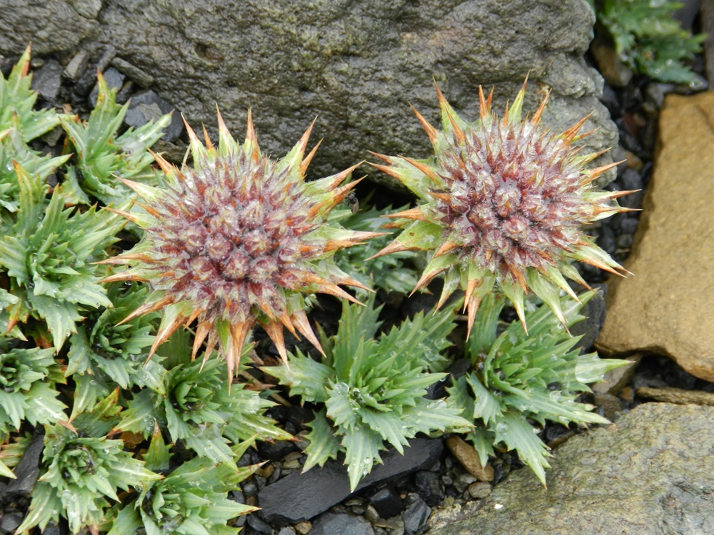 Nassauvia magellanica